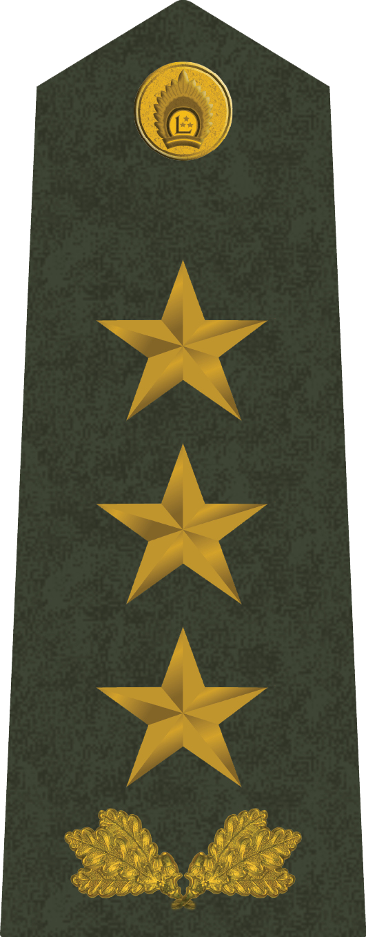 Latvian Lieutenant General rank insignia